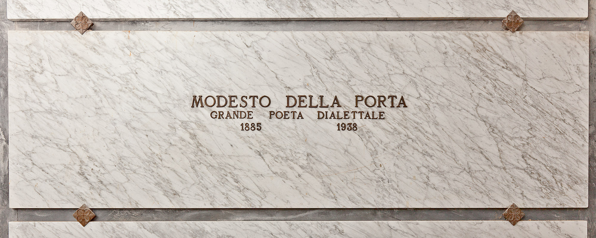 The slab of the tomb of the poet Modesto Della Porta in the family chapel on the graveyard in Guardiagrele, IT